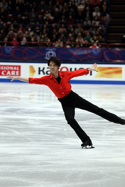 Photos – World Championships 2018 – Men (Kazuki TOMONO JPN – 5th Place)